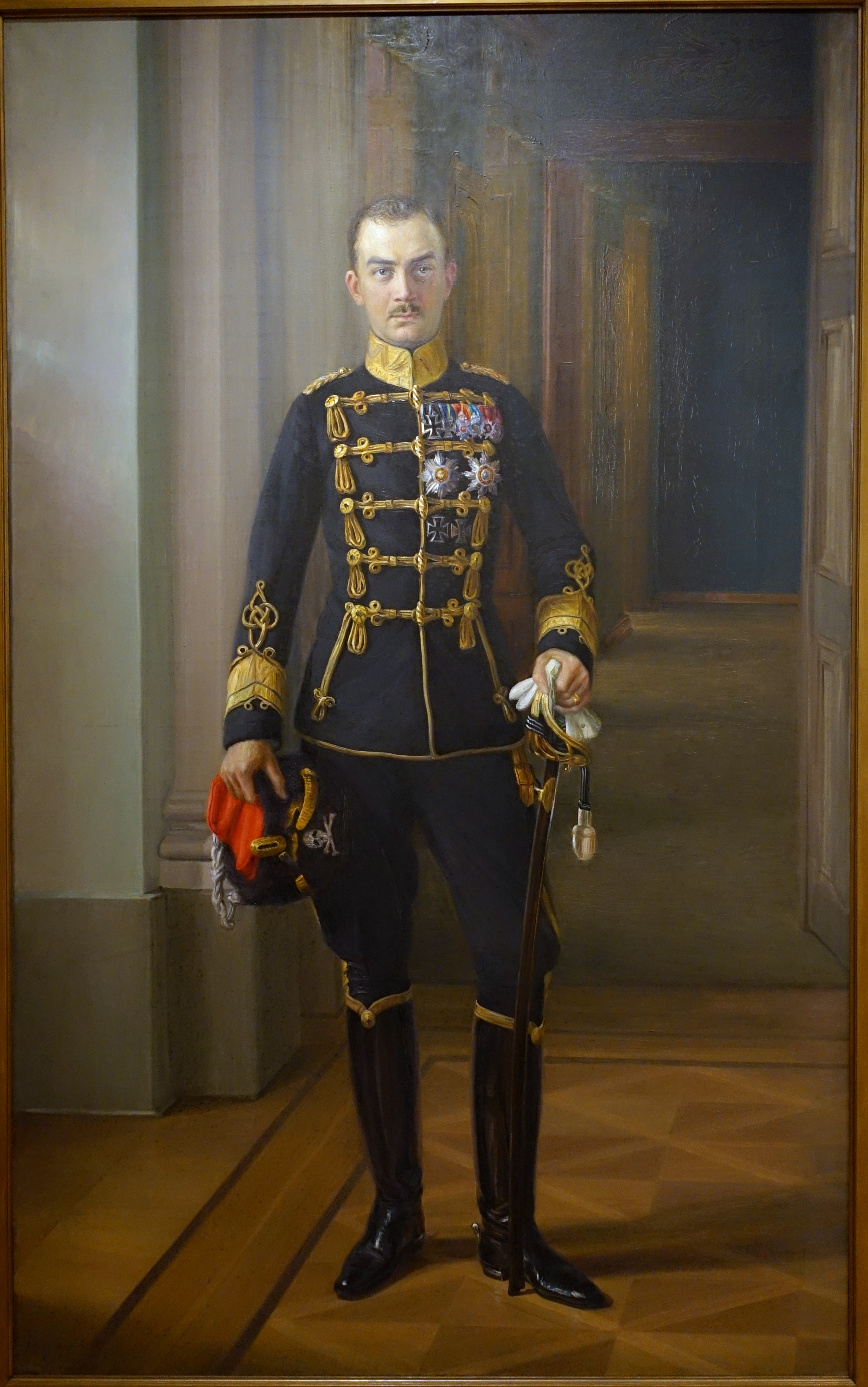 Exhibit in the Braunschweigisches Landesmuseum, Braunschweig, Germany. This work is in the public domain because the artist died more than 100 years ago.